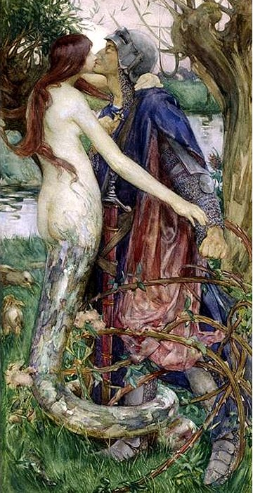 The Knight and the Mermaid or The Kiss of the Enchantress, watercolor painting. Inspired by the poem "Lamia" by John Keats. 62 x 32 cm